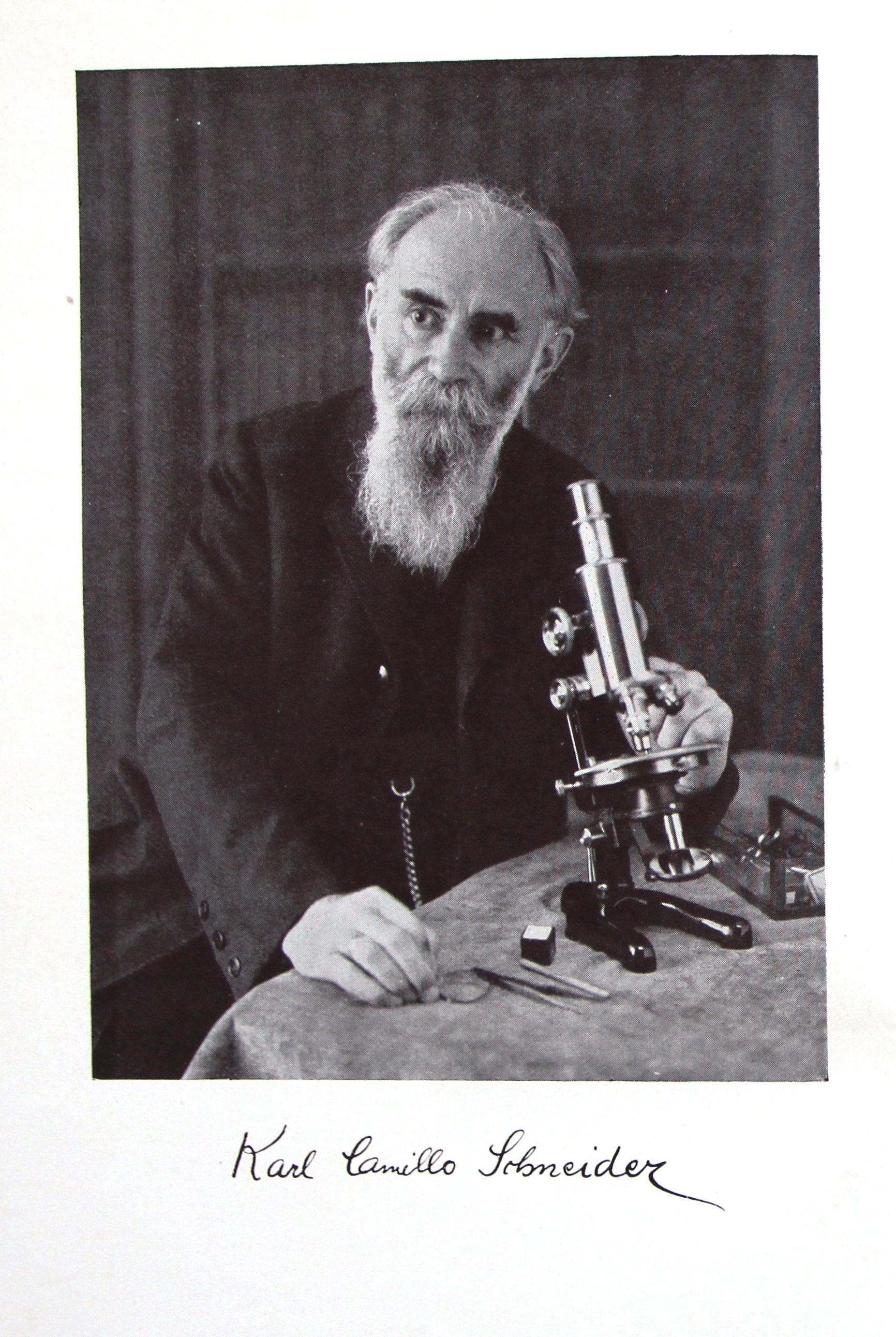 Karl Camillo Schneider (1867-1943)